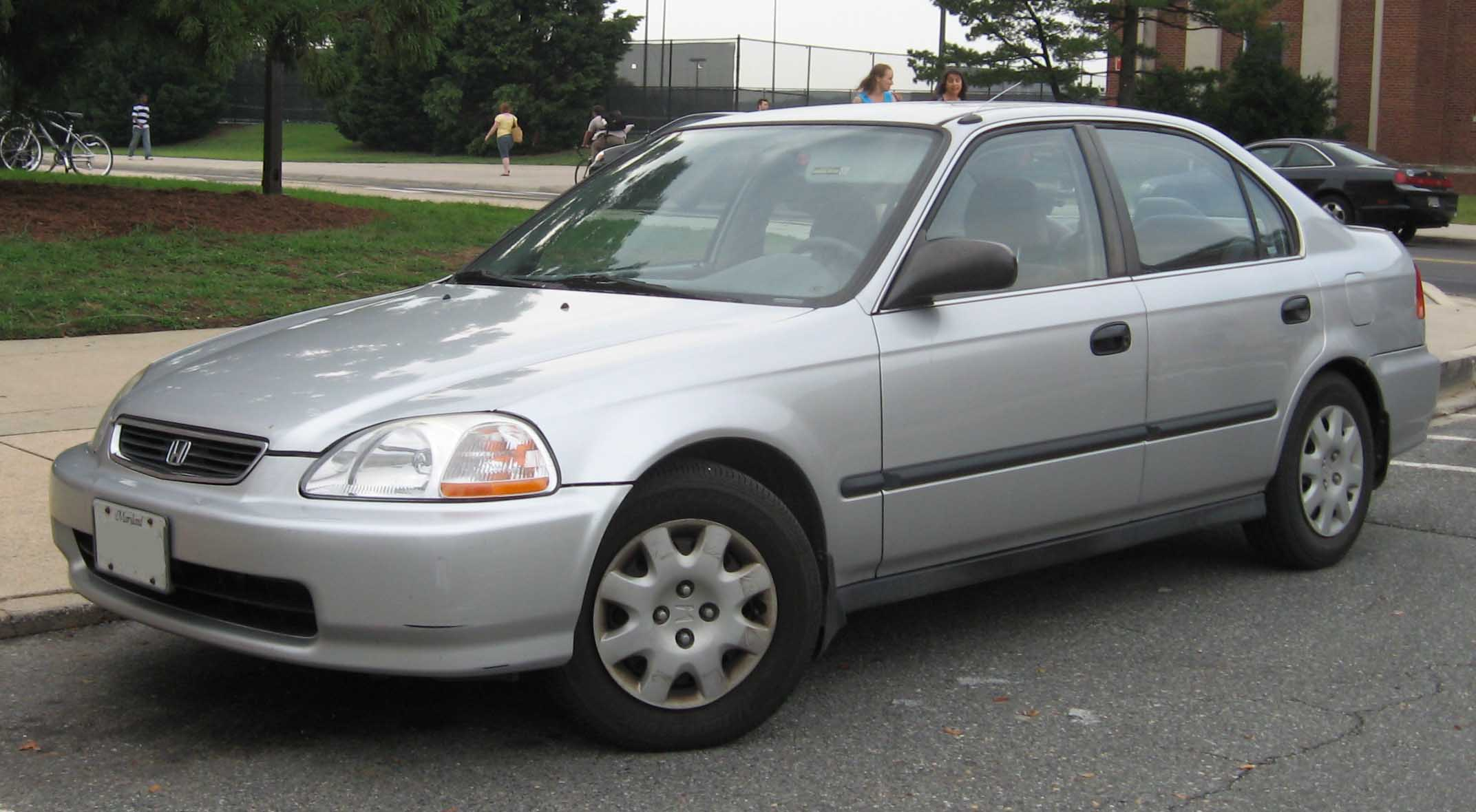 1996-1998 Honda Civic photographed in College Park, Maryland, USA.